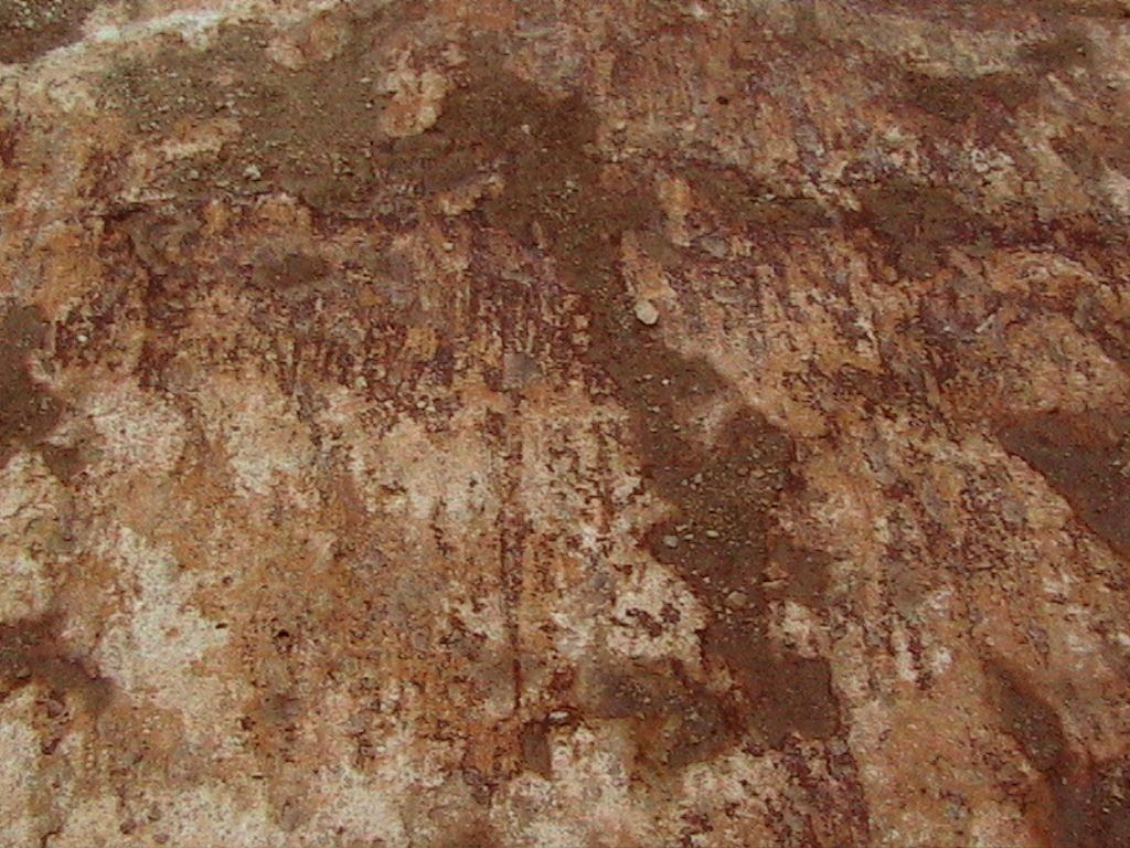 Abraded surface of the limestone at the Gundelsheim quarry, as seen from above. The parallel scratches point towards the center of the Ries crater (towards the top of the image). These scratches were caused when the ejected material ("Bunte Breccie") was moved at high speed across this surface. The Gundelsheim quarry is located approx. 7.5 kilometers east of the crater rim. Image is about 1 meter wide.